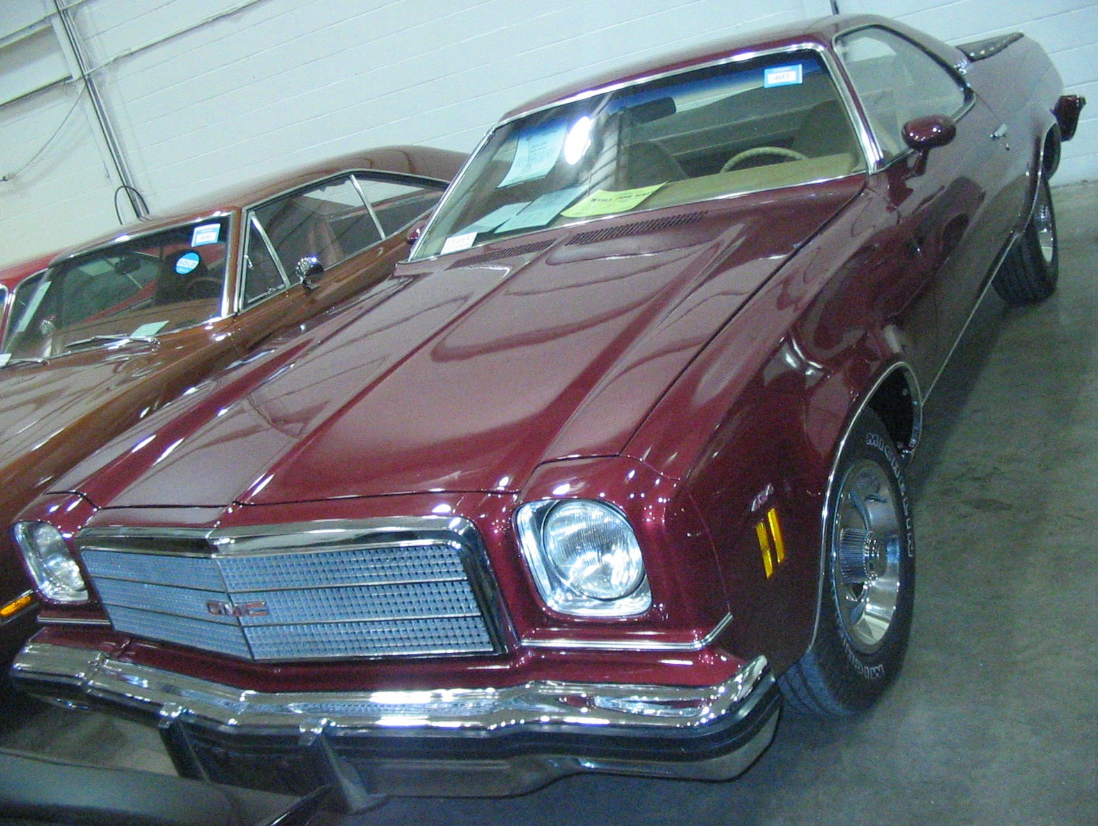 1974 GMC Sprint photographed in Mississauga, Ontario, Canada at the Toronto Classic Car Auction of spring 2012.